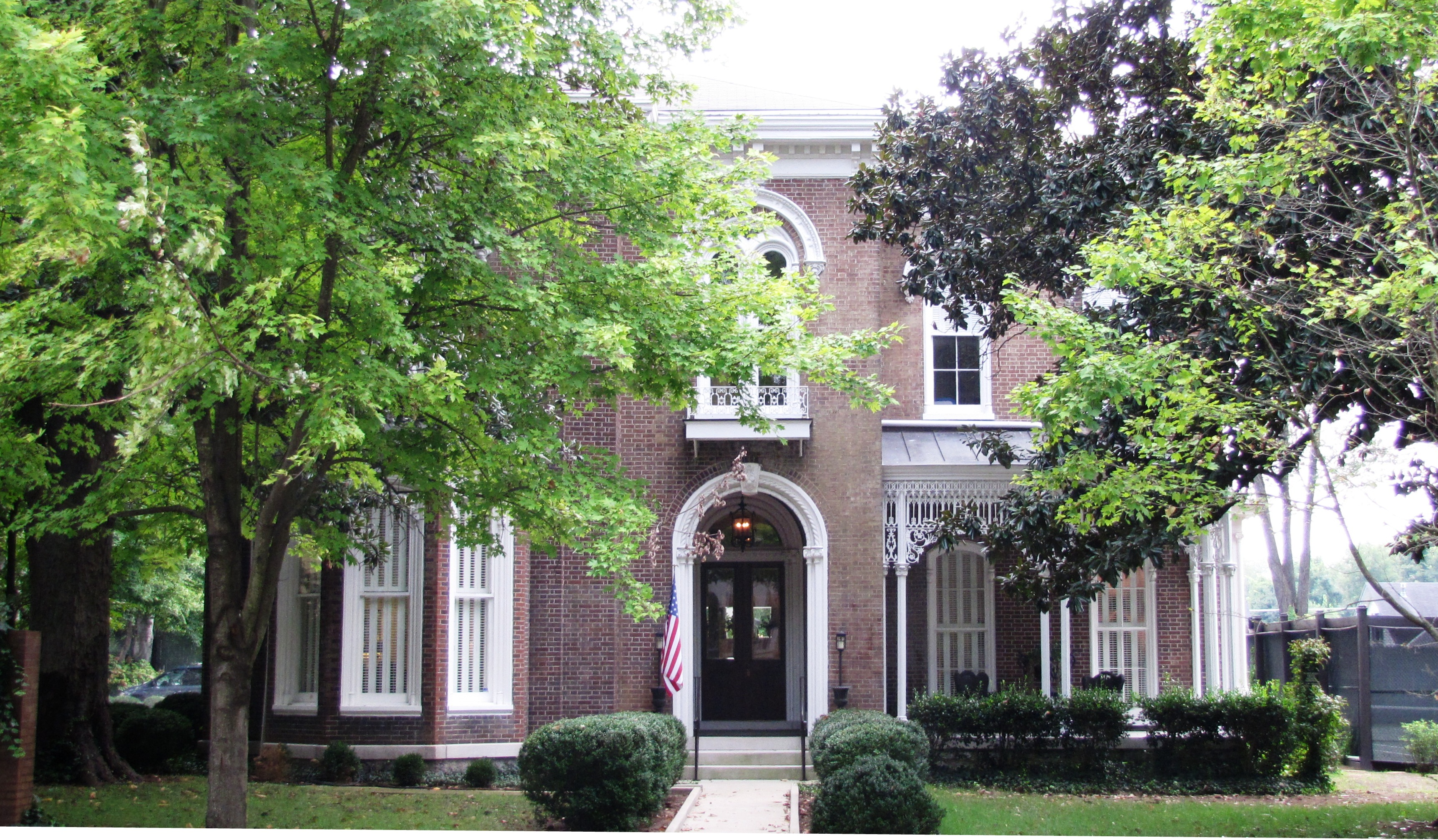 The General Joseph B. Palmer House (434 E. Main) in Murfreesboro, Tennessee, USA. Built in 1869, this house is now listed on the National Register of Historic Places.